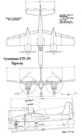 3-side-drawing of a Grumman F7F-3N Tigercat night fighter, published by the U.S. Navy Bureau of Aeronautics on 1 March 1946.